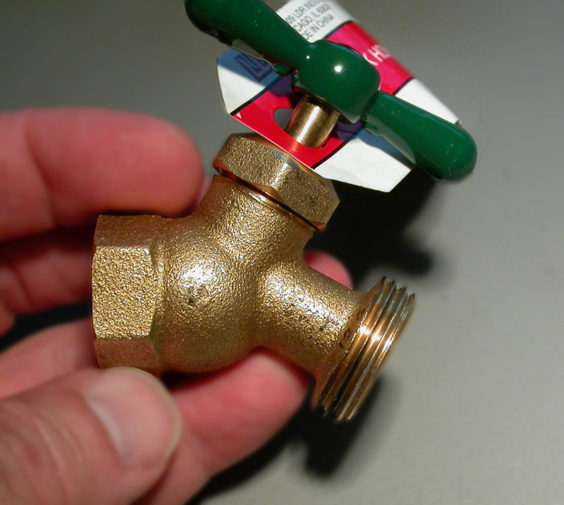 Hose bipp for residential garden use, intl. standard ISO228-1 G1,2 thread at incoming side, US-only-standard GHT (GardenHoseThread) at outgoing connector